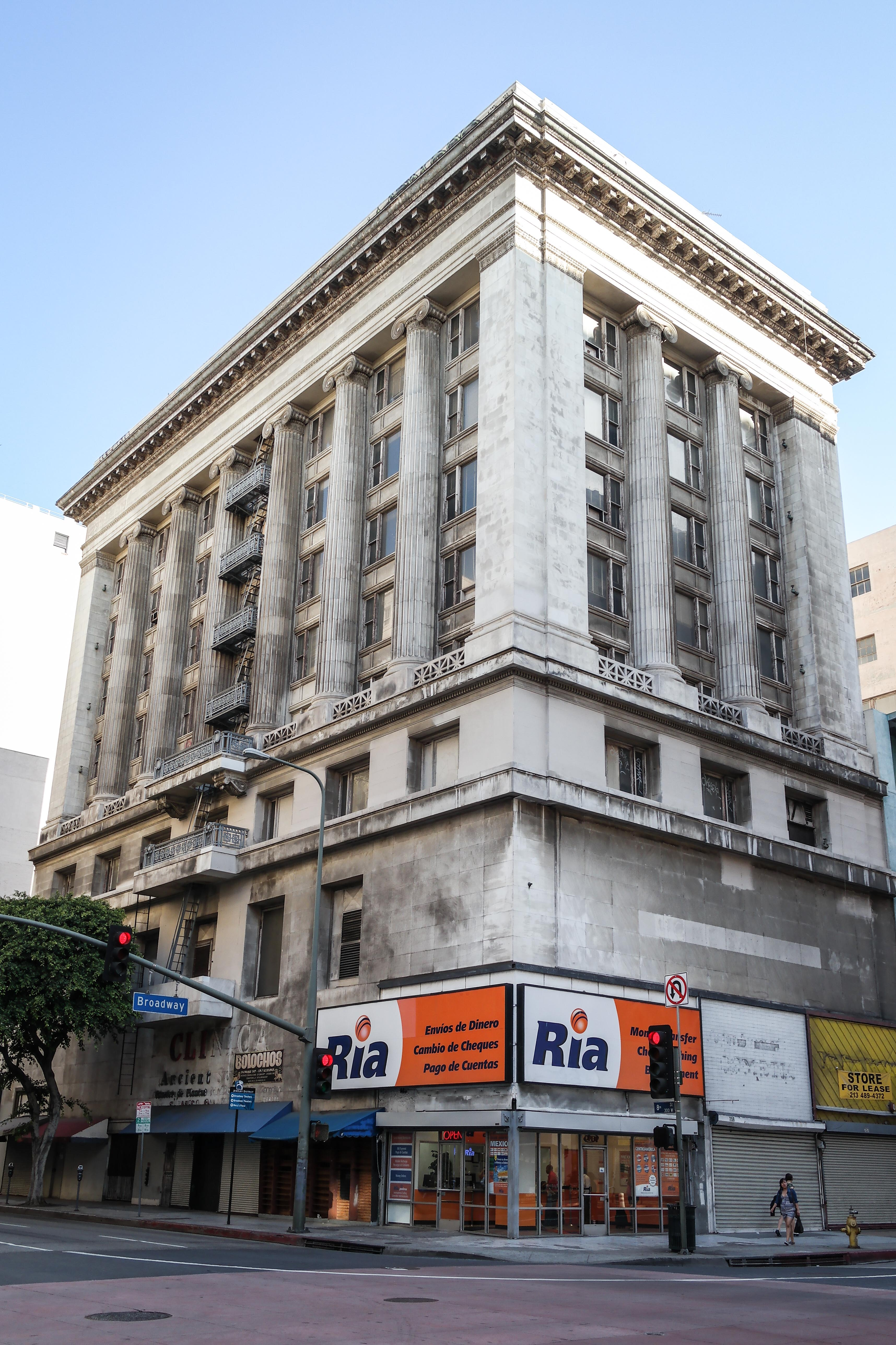 The 1914 Merritt Building in the Broadway Theater and Commercial District of Los Angeles